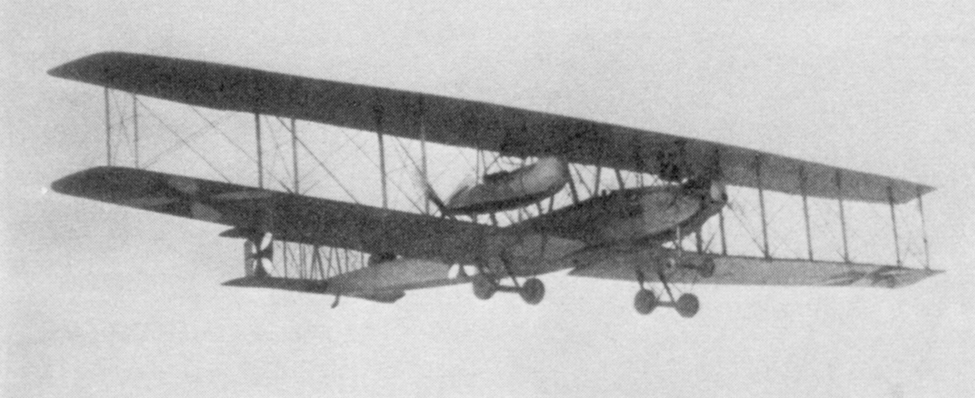 Photo of fourth Zeppelin-Staaken "giant" bomber, the R.IV of 1916, the only "nose-engined" Zeppelin-Staaken heavy bomber example to survive World War I.